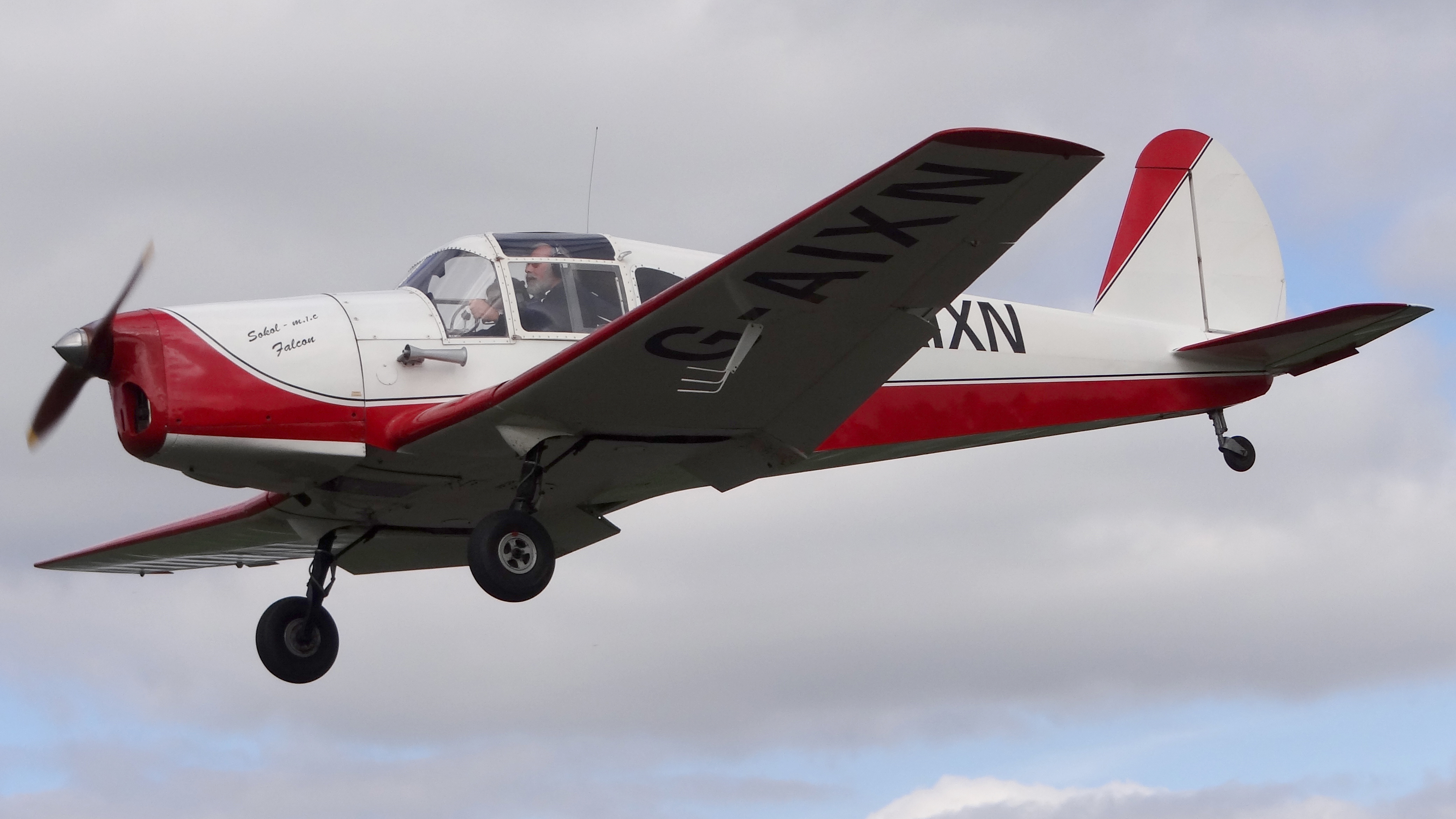 Mráz Sokol M-1C, G-AIXN landing at its home base of Turweston Aerodrome